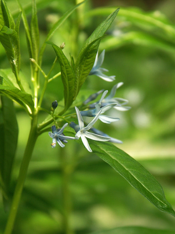 or Amsonia angustifolia ?